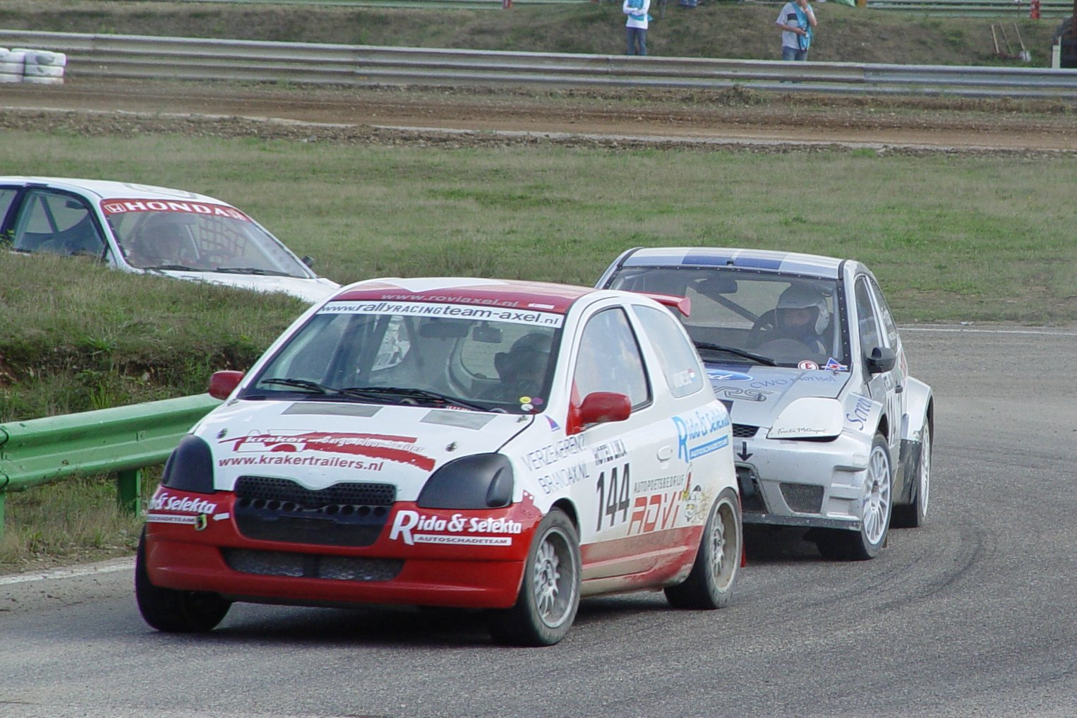 Rally Cross Duivelsbergcircuit Maasmechelen